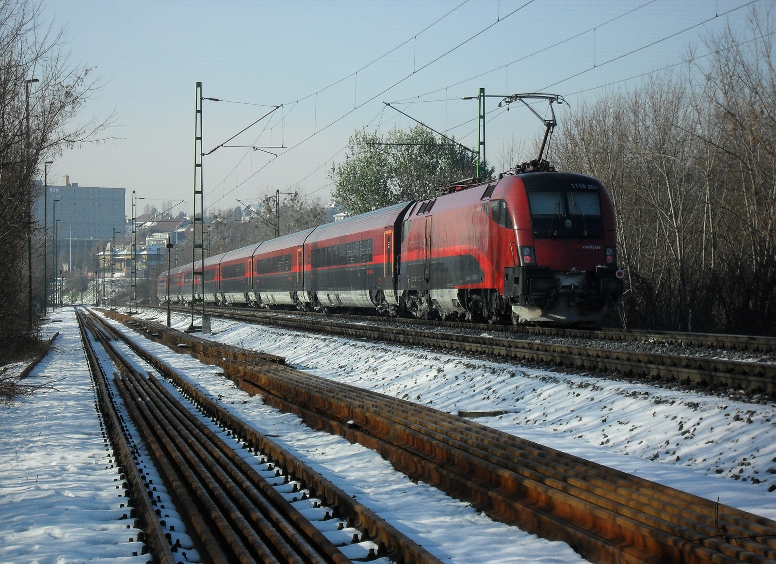 Railjet Hungary Nagytétényi Road